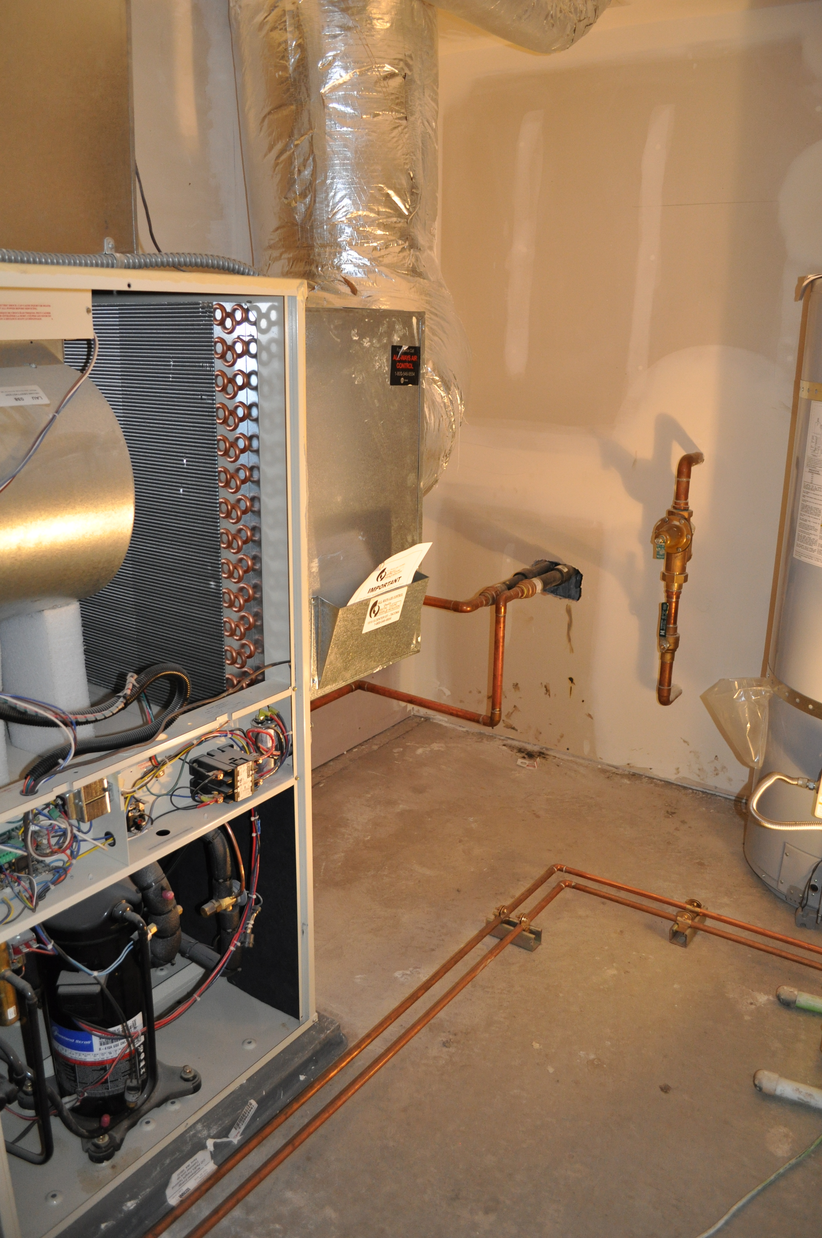 Reporting from Geo Homes, Seattle, WA, with All Radiant Sub-Contractor, Hayward Giraud explains the functioning of the geo thermal heating and cooling system for this new community of green built homes. These systems are 350% more efficient than standard HVAC systems making them low cost and better for the environment. Geo thermal systems also provide federal credits for the new home owners saving thousands of dollars. Giraud explains the mechanical functioning of geo thermal heating and cooling systems in video at